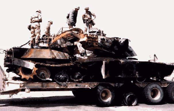 An M1A1 B-23 1/37 1st AD, Destroyed Feb 26 1991. Suffered two impacts: 1. Shaped charge impacted rear grill (Hellfire) 2. Tank round impacted rear from left to right (exit hole is visible).